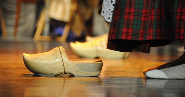 Nice shape